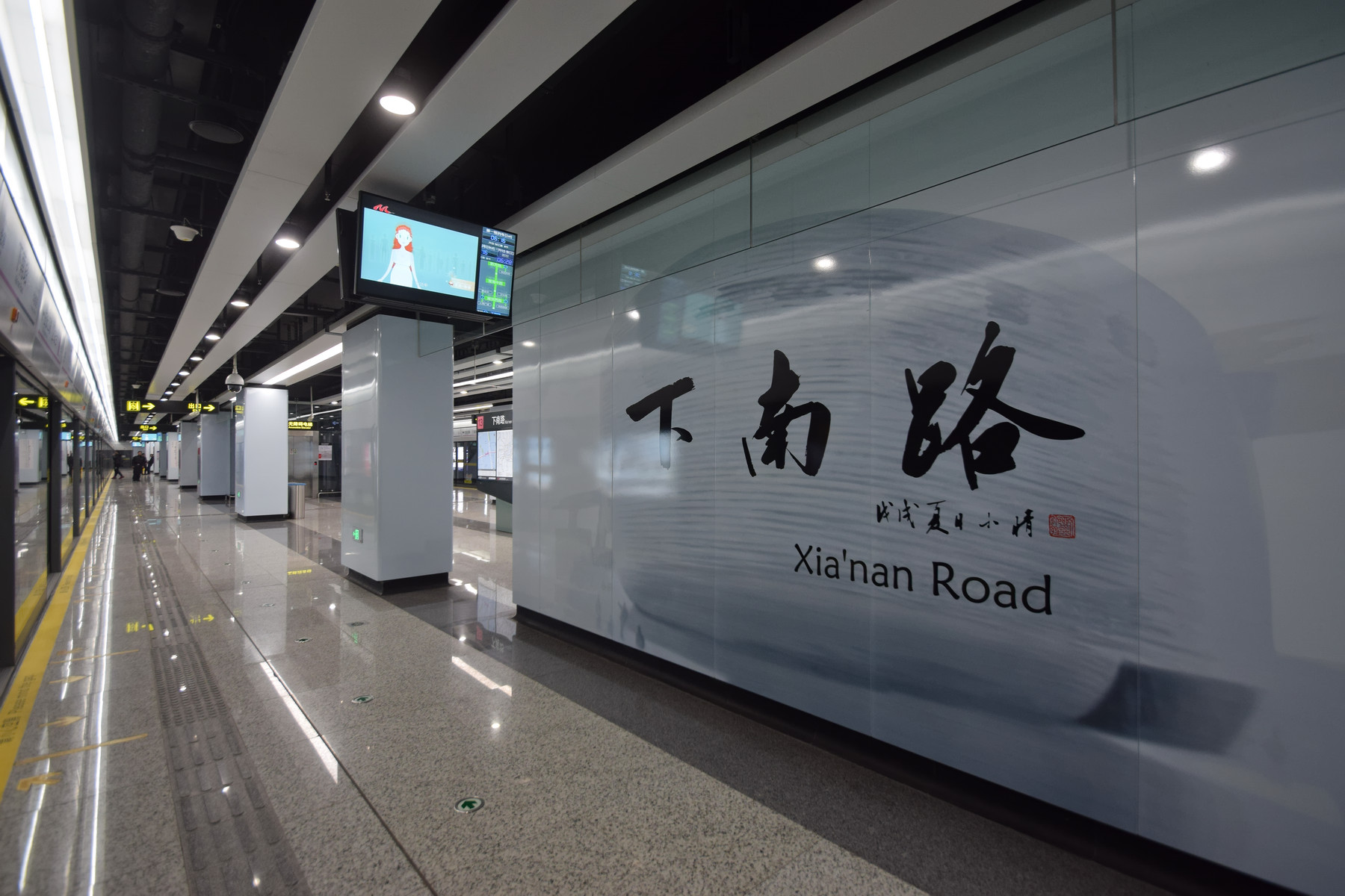 Line 13 Platform of Xia'nan Road Station, Shanghai Metro